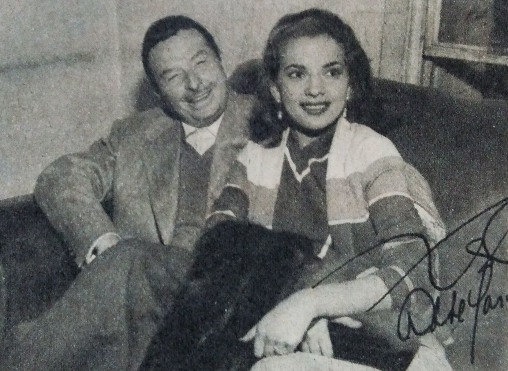 Xavier Cugat and Abbe Lane, when they visited Japan in 1953.